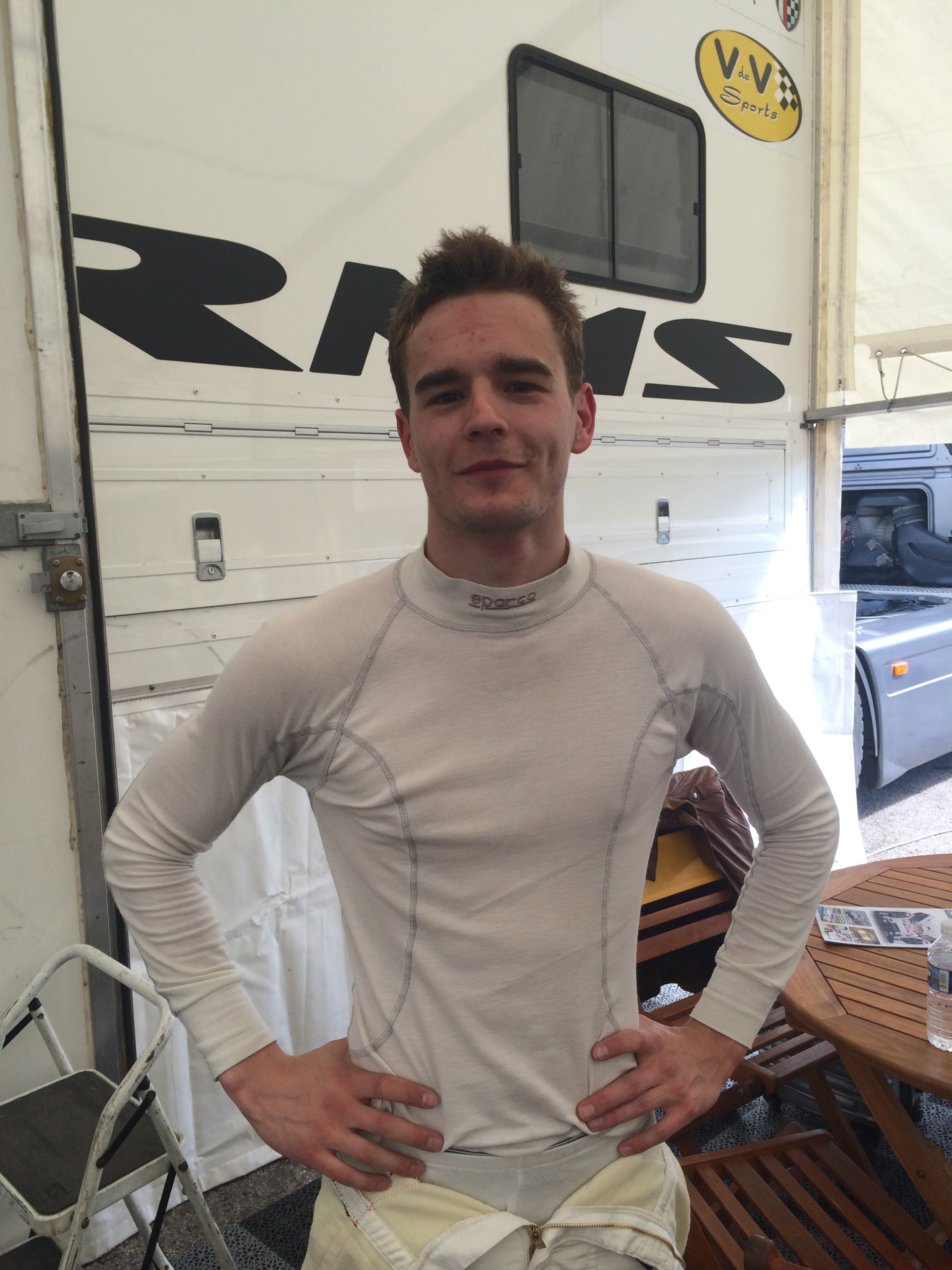 imola of